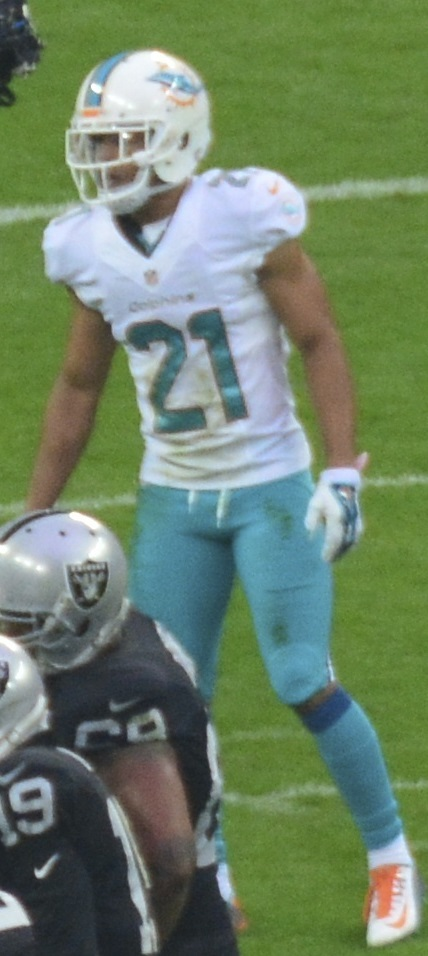 Raiders vs. Dolphins 2014